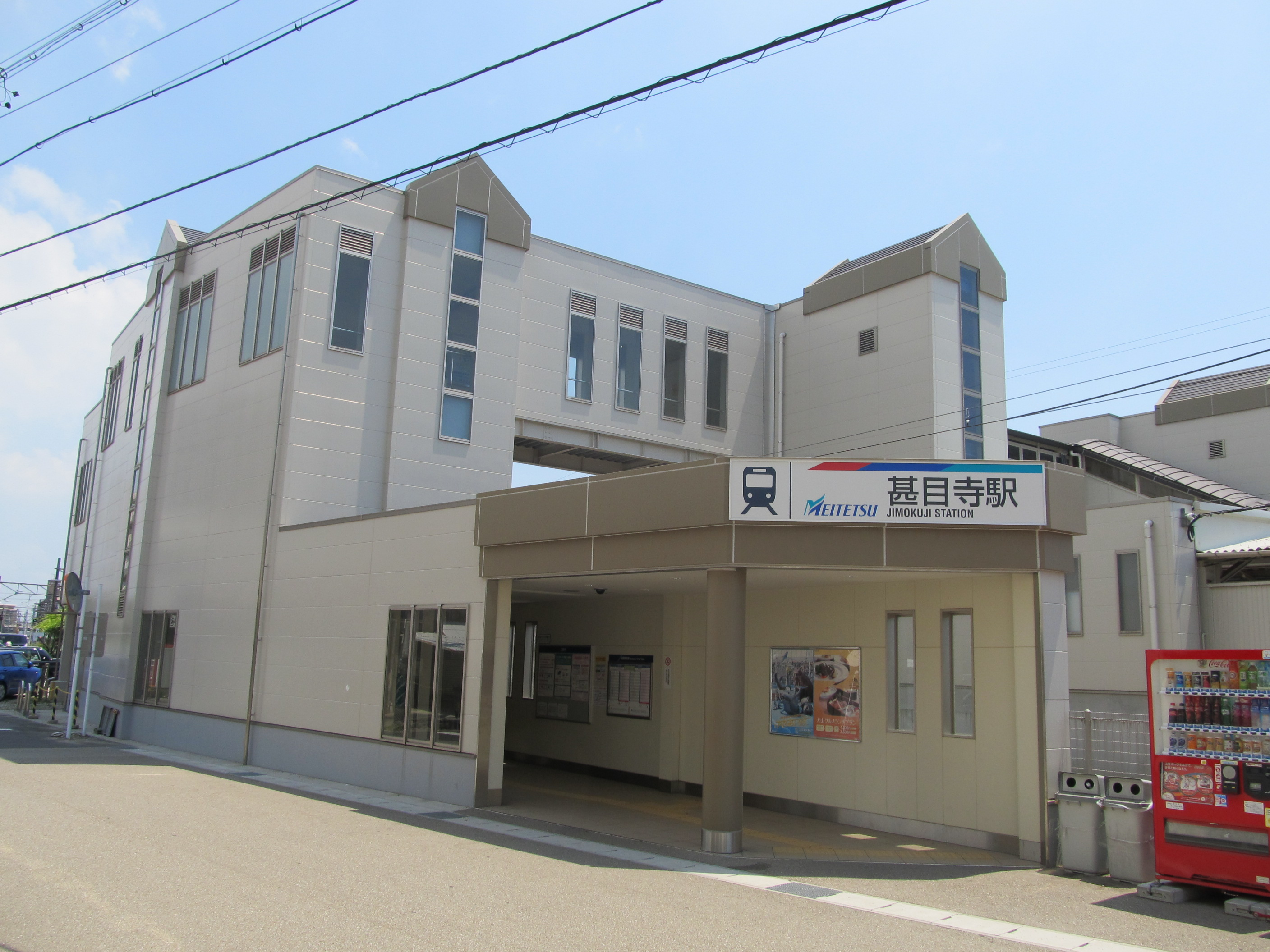 Nagoya Railroad Tsushima Line Jimokuji Station North Gate